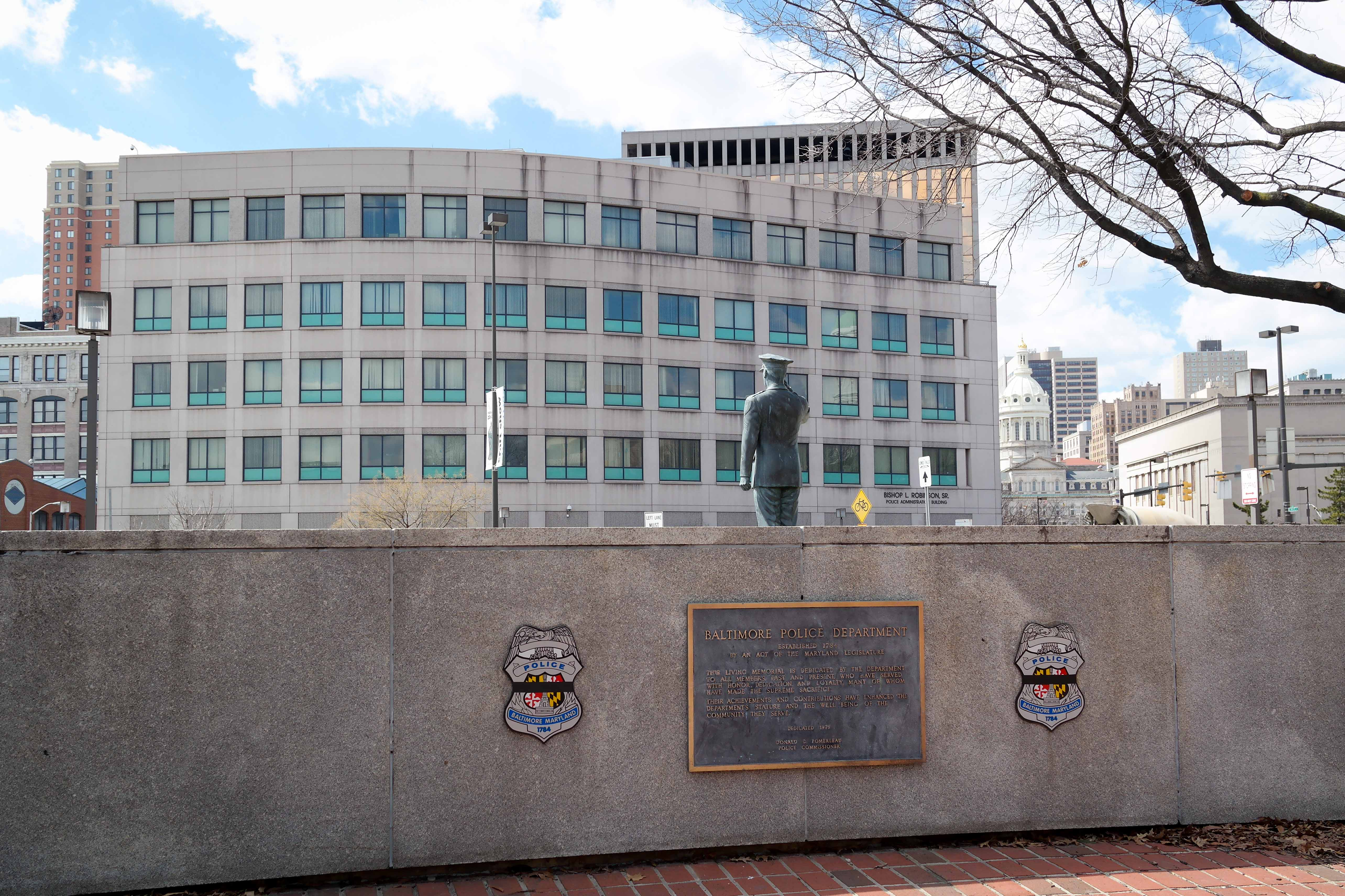 A view of the Baltimore City Fraternal Order of Police Memorial